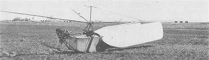 An image of the Hafner R.I Revoplane (1929)